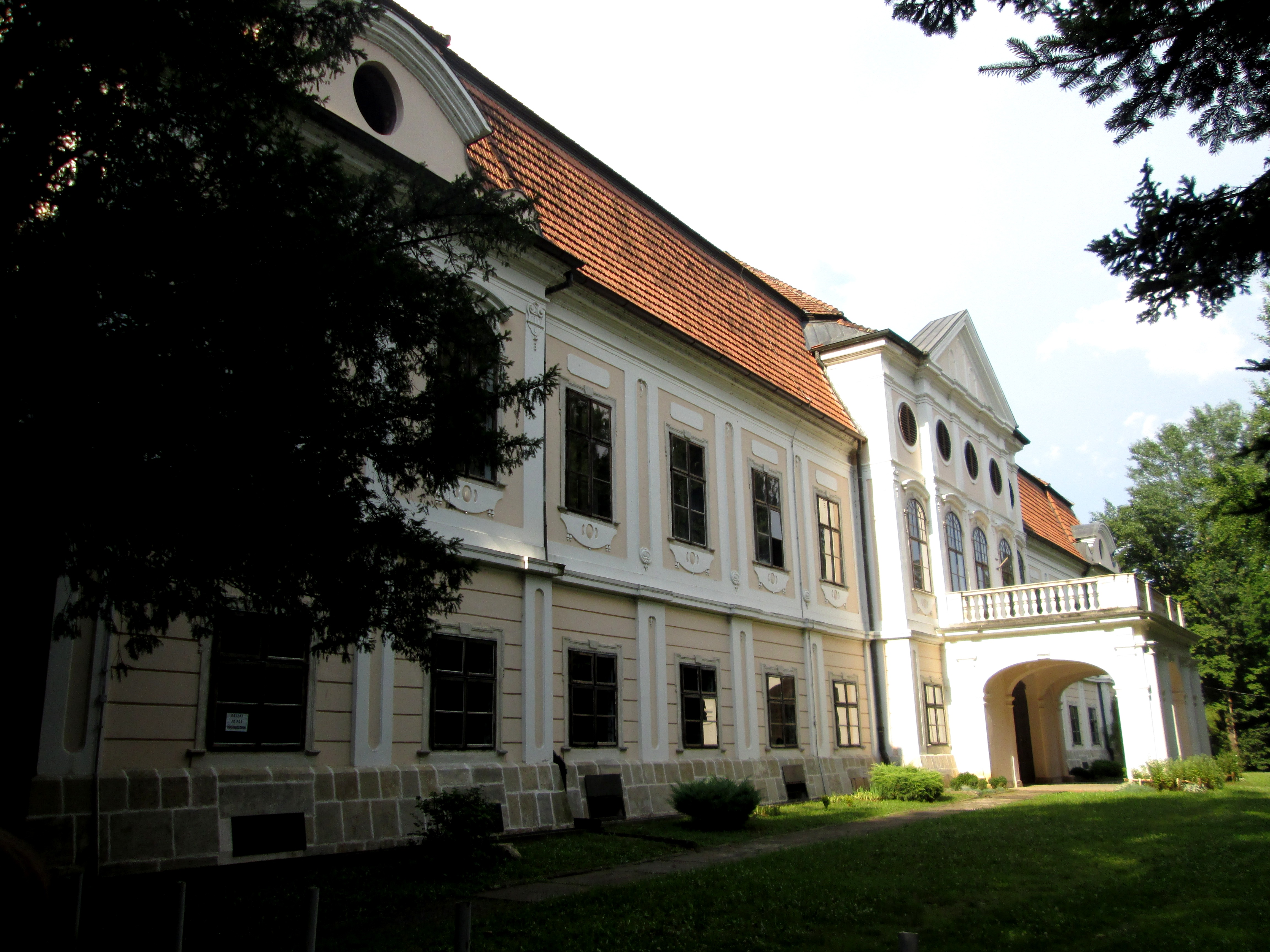 Castle Jankovic in Daruvar, Croatia